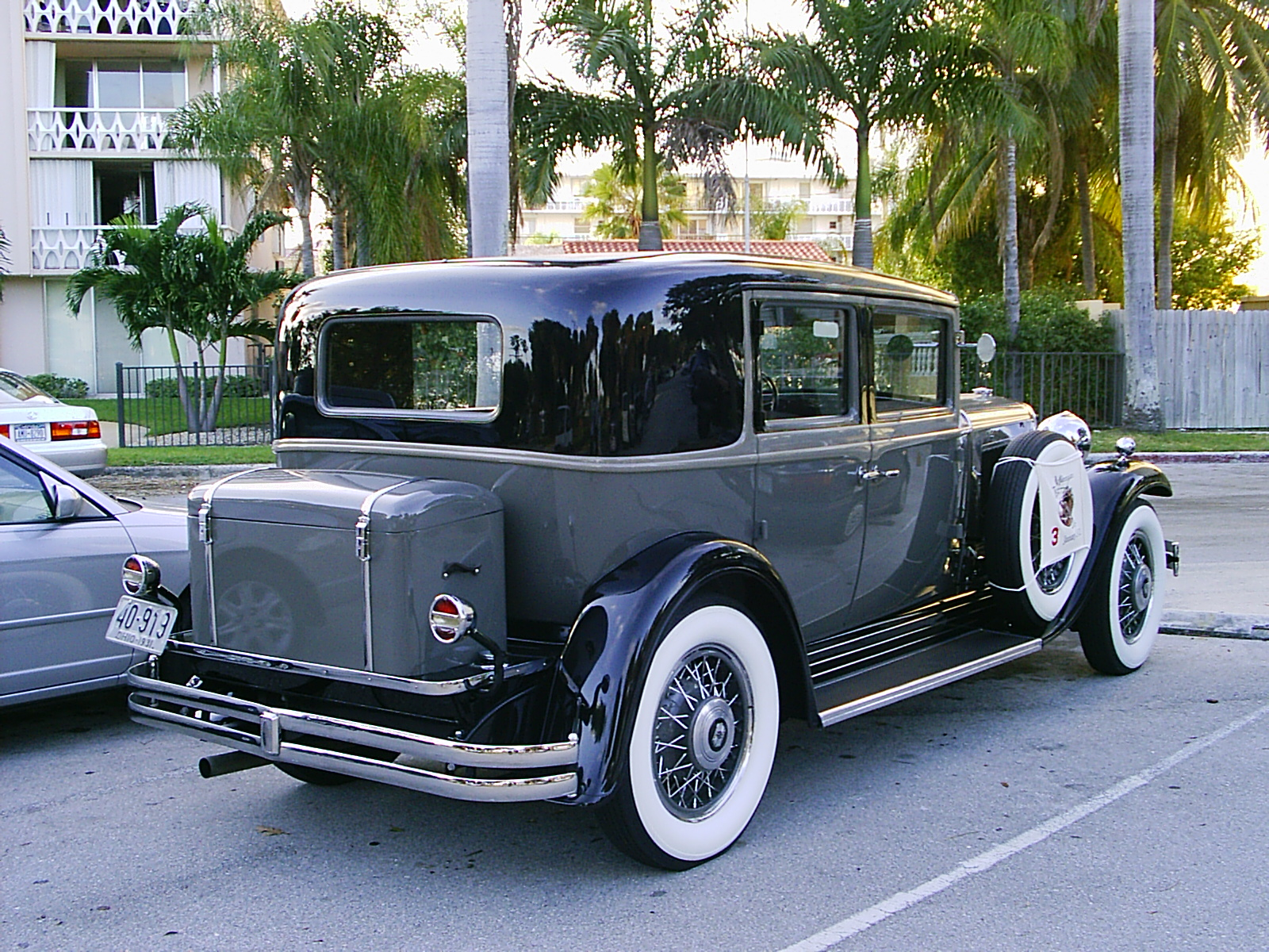 Nash Motor Company vehicle - 1931 Nash Ambassador sedan - front view. Owner is Dale Adams from Ravenna, OH. Picture taken at an AACA (Antique Automobile Club of America) durability run rest stop in the city of Lake Worth, Florida